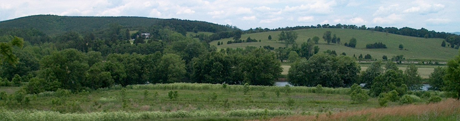 Piedmont at the border of Nelson County and Buckingham County at James River State Park. © 2005 Wyatt Greene